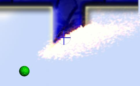 particles system